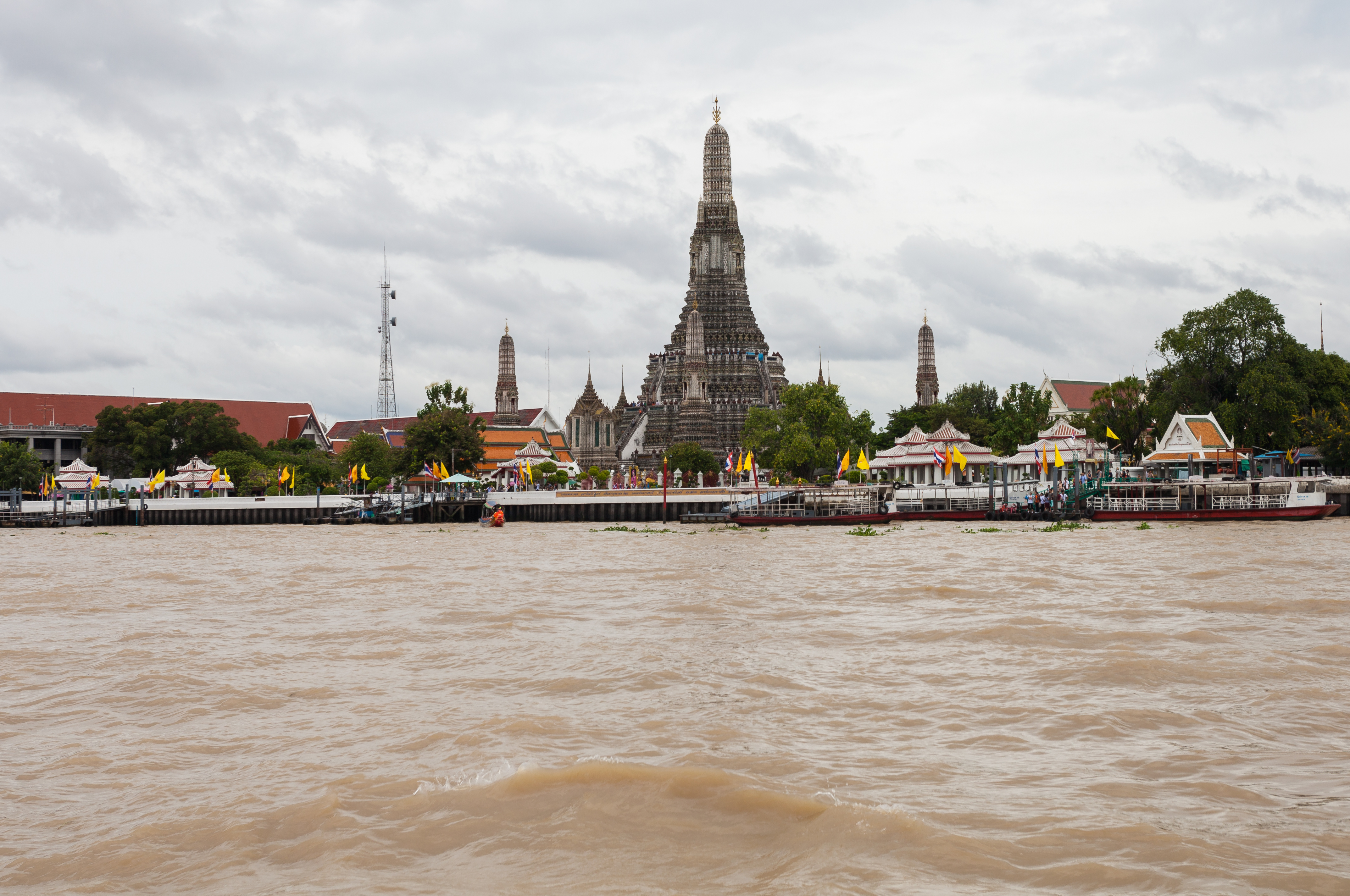 Wat Arun Temple, Bangkok, Thailand